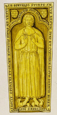 Robert II of Dreux